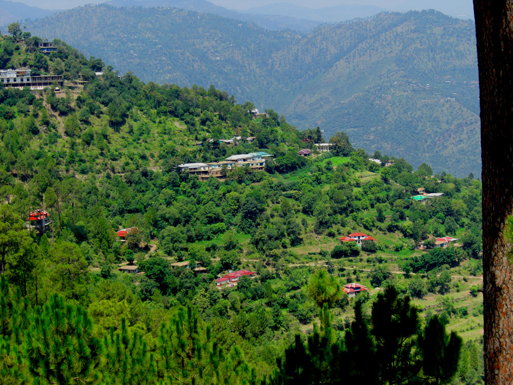 View of Bhalgran from Parath. Poonch district, Azad Kashmir, Pakistan.